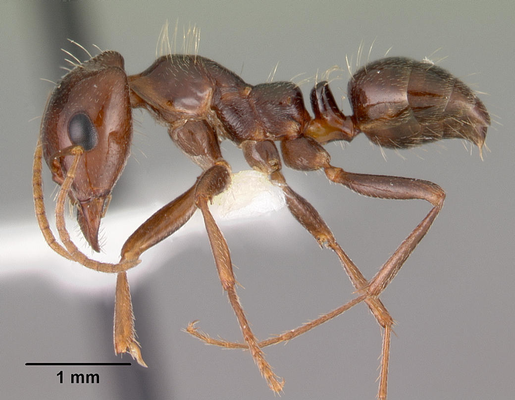 Profile view of ant Rossomyrmex minuchae specimen casent0102381.